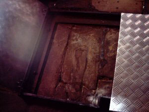 George Marsh Foot Print